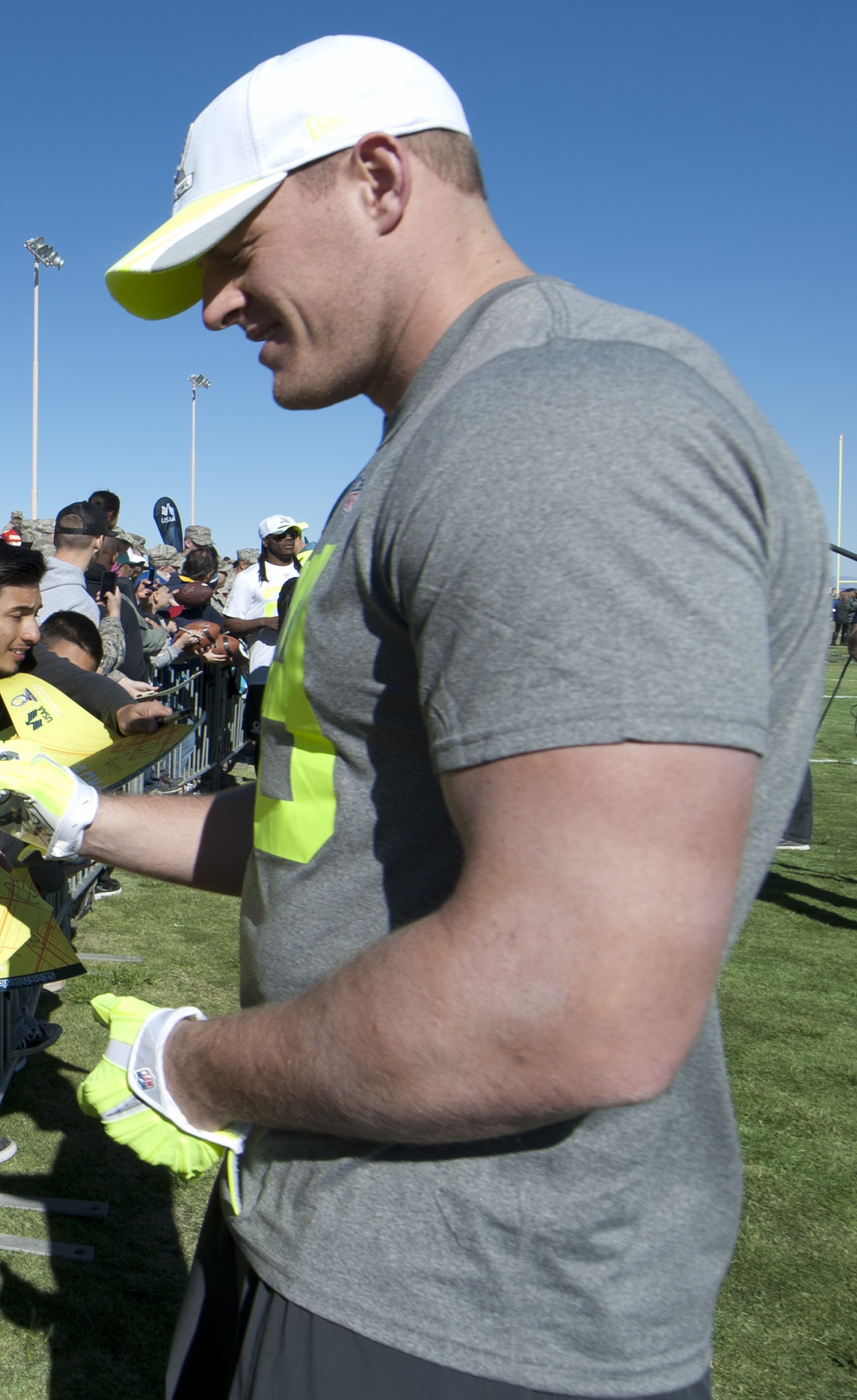 J.J. Watt, Houston Texans defensive end assigned to Pro Bowl Team Carter, autographs footballs and pendants during the Pro Bowl practice at Luke Air Force Base, Ariz., Jan. 22, 2015. The Pro Bowl players were practicing on base to show support for Airmen and to prepare for the game on Sunday. (U.S. Air Force photo by Staff Sgt. Staci Miller)